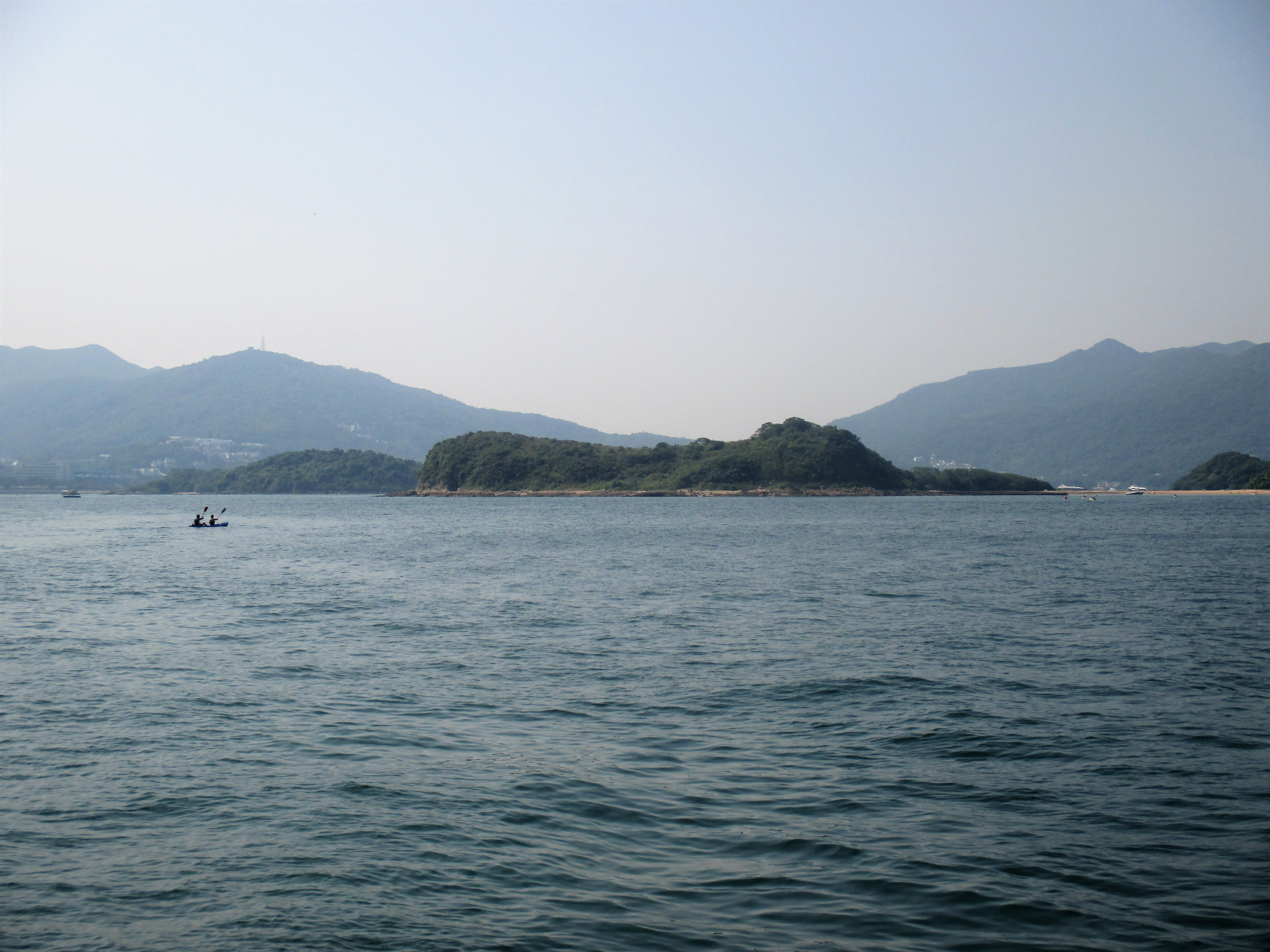 Inner Port Shelter